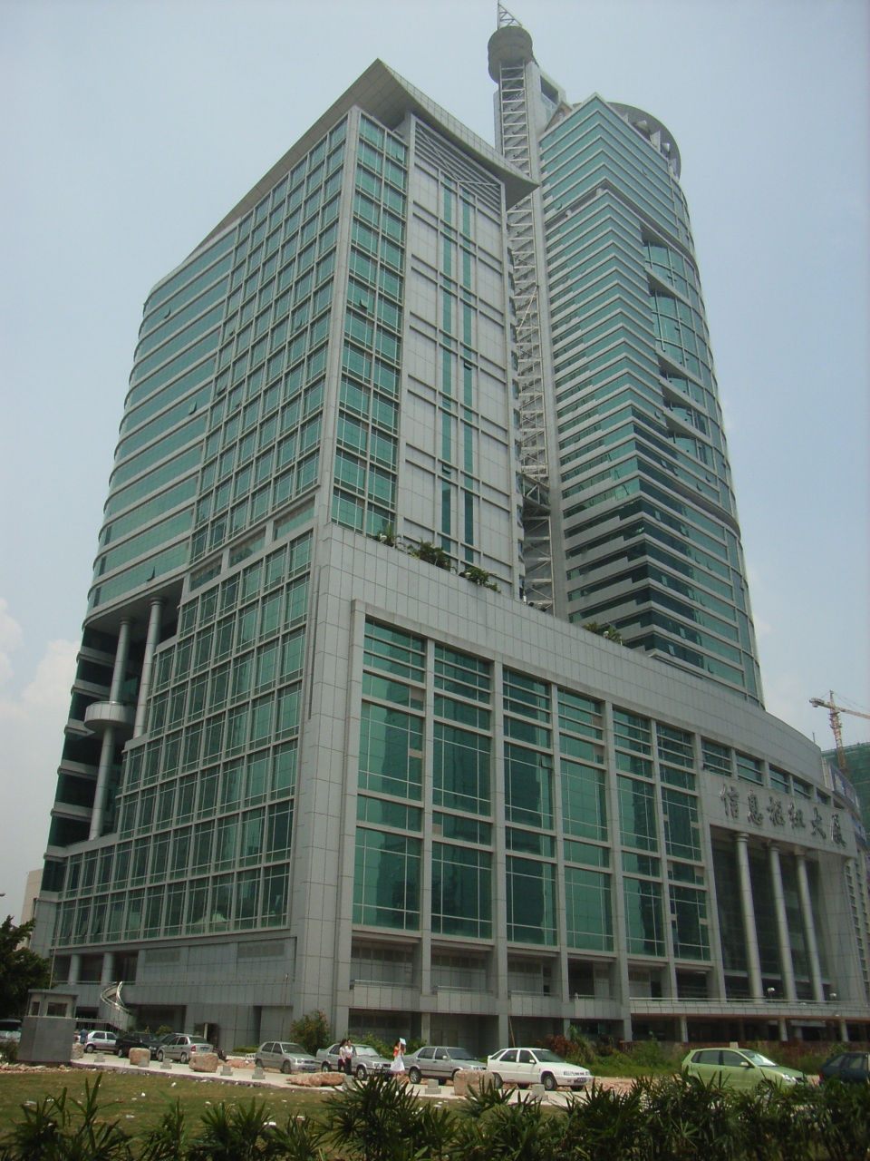 信息枢纽大厦 (市电信大厦) Shenzhen, China (Author is SAMZ).